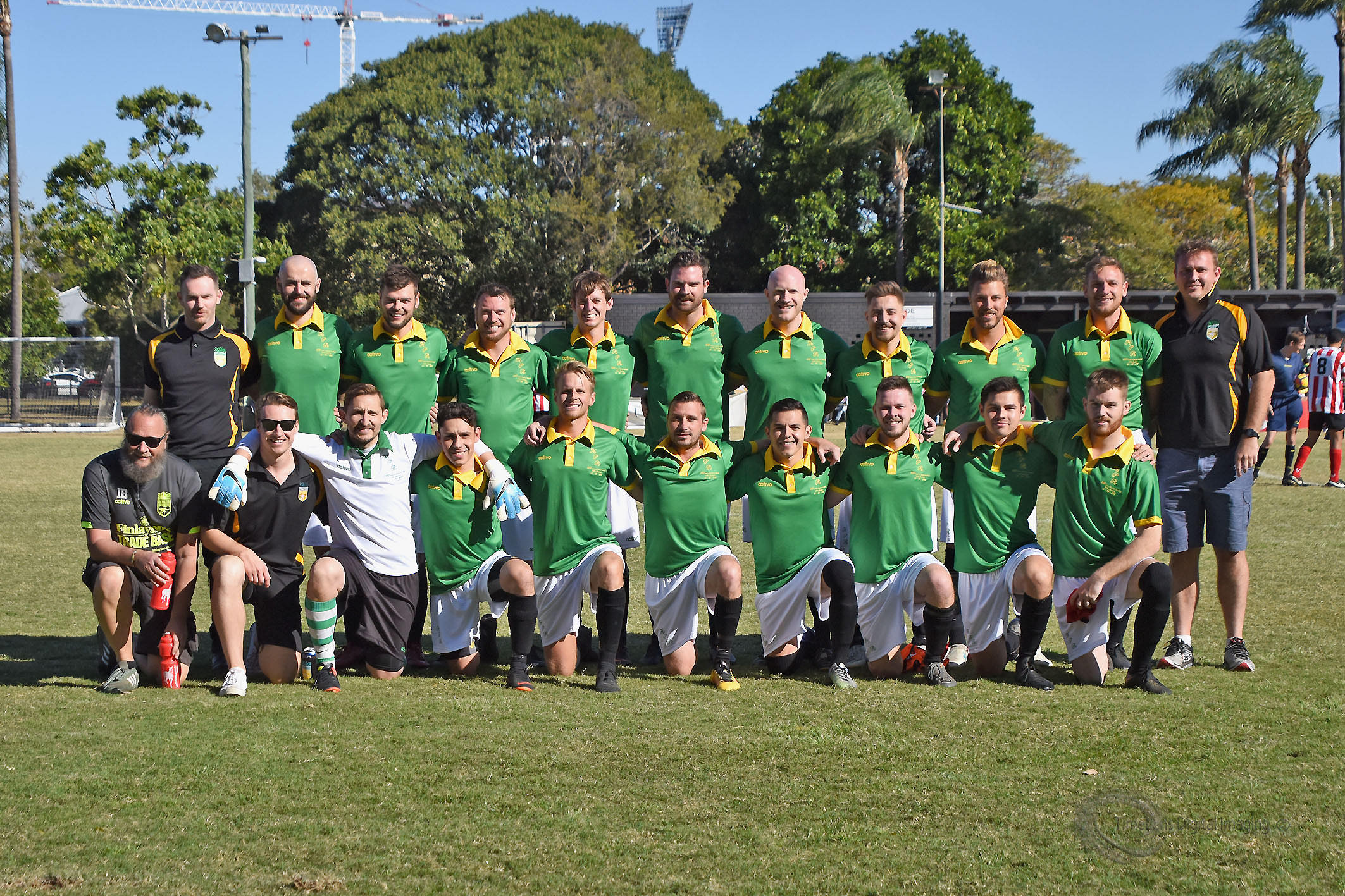 100 Years of Piney Football. Our First team pose for a photo in our heritage kit before taking the field to face Bardon Latrobe